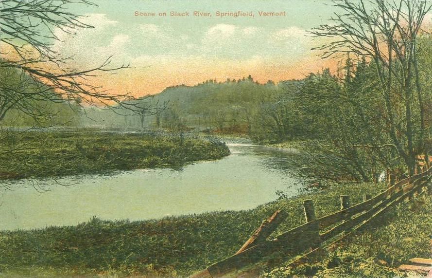 Scene on Black River, Springfield, Vermont; from a 1907 postcard published by G. W. Morris, Portland, Maine.